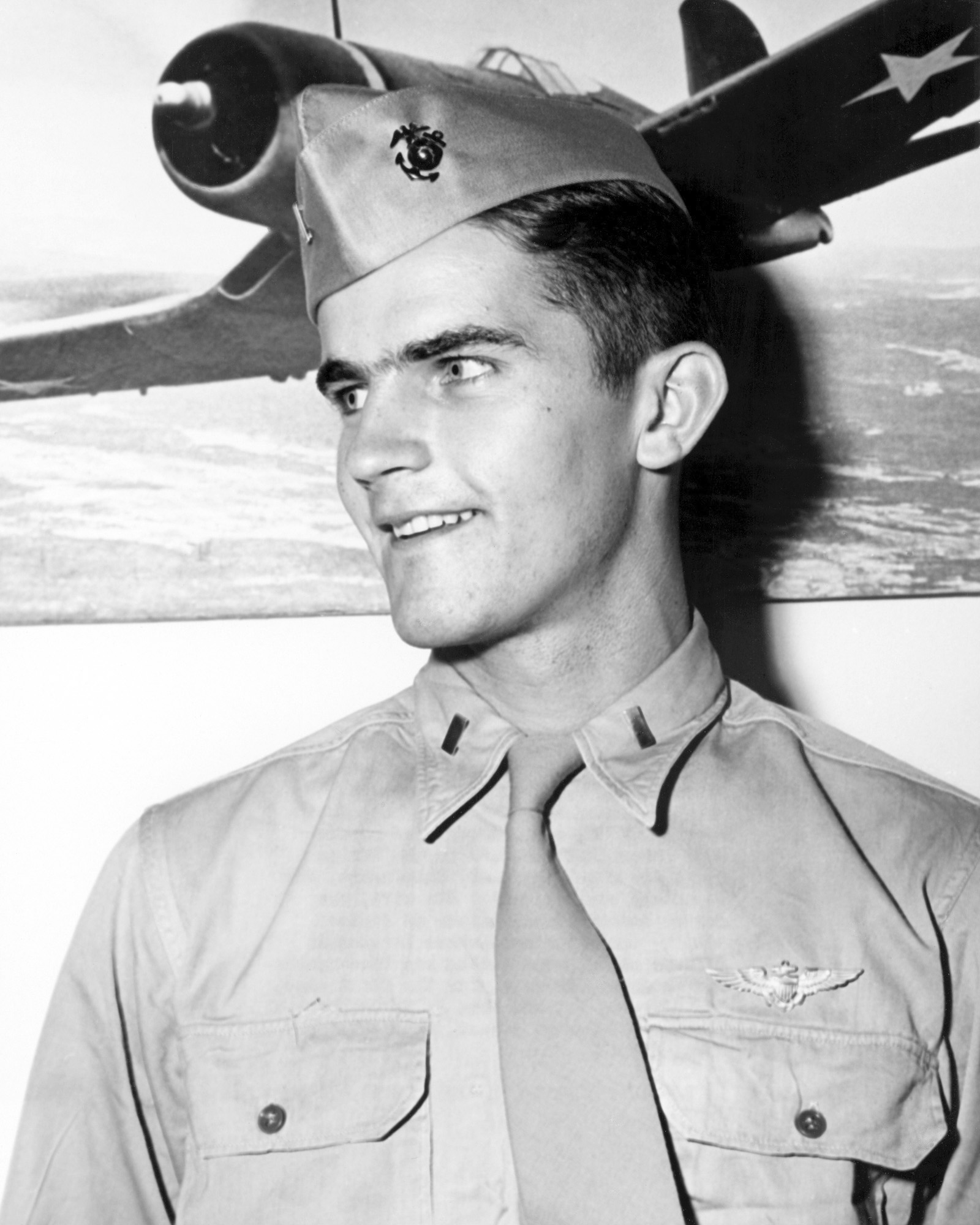 Official Portrait of US Marine Corps (USMC) First Lieutenant (1LT) Jeremiah J. O'Keffe, taken at Marine Corps Air Depot, Miramar, San Diego, California (CA), 1945. 1LT O'Keffe is an ace pilot and is credited with 7 kills. His hometown is Ocean Springs, Mississippi. A photograph of a US Navy F4U "CORSAIR" aircraft hangs in the background. (Exact date shot unknown)